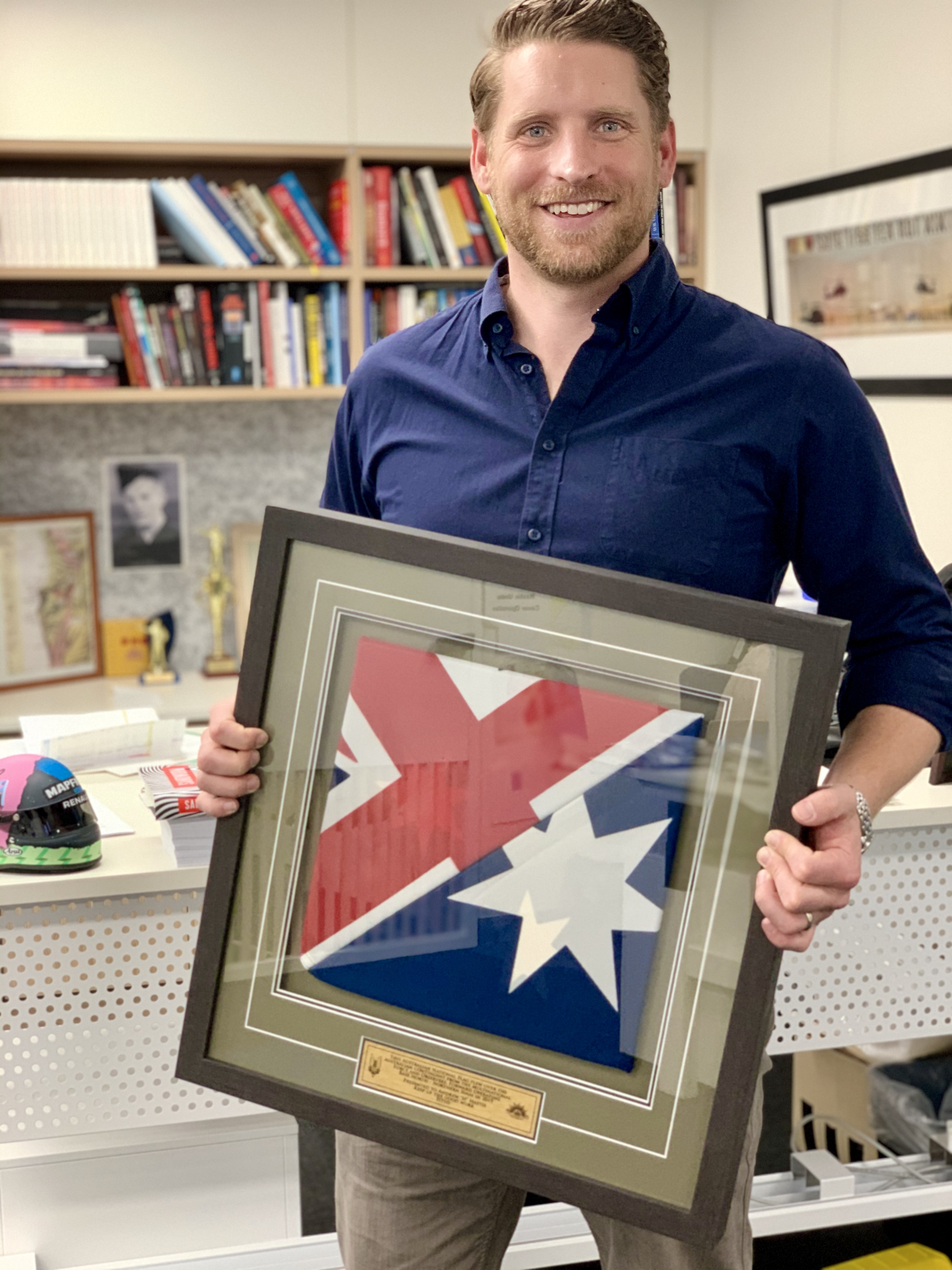 Andrew Hastie MP with flag gifted to him by SASR operators January 2020 photo taken by D Birch